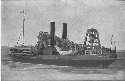 Twin-screw hopper-dredger Percy Sanderson, 1,320 GRT. Built in 1894 by Wm. Simons & Co of Renfrew for the European Danube Commission.